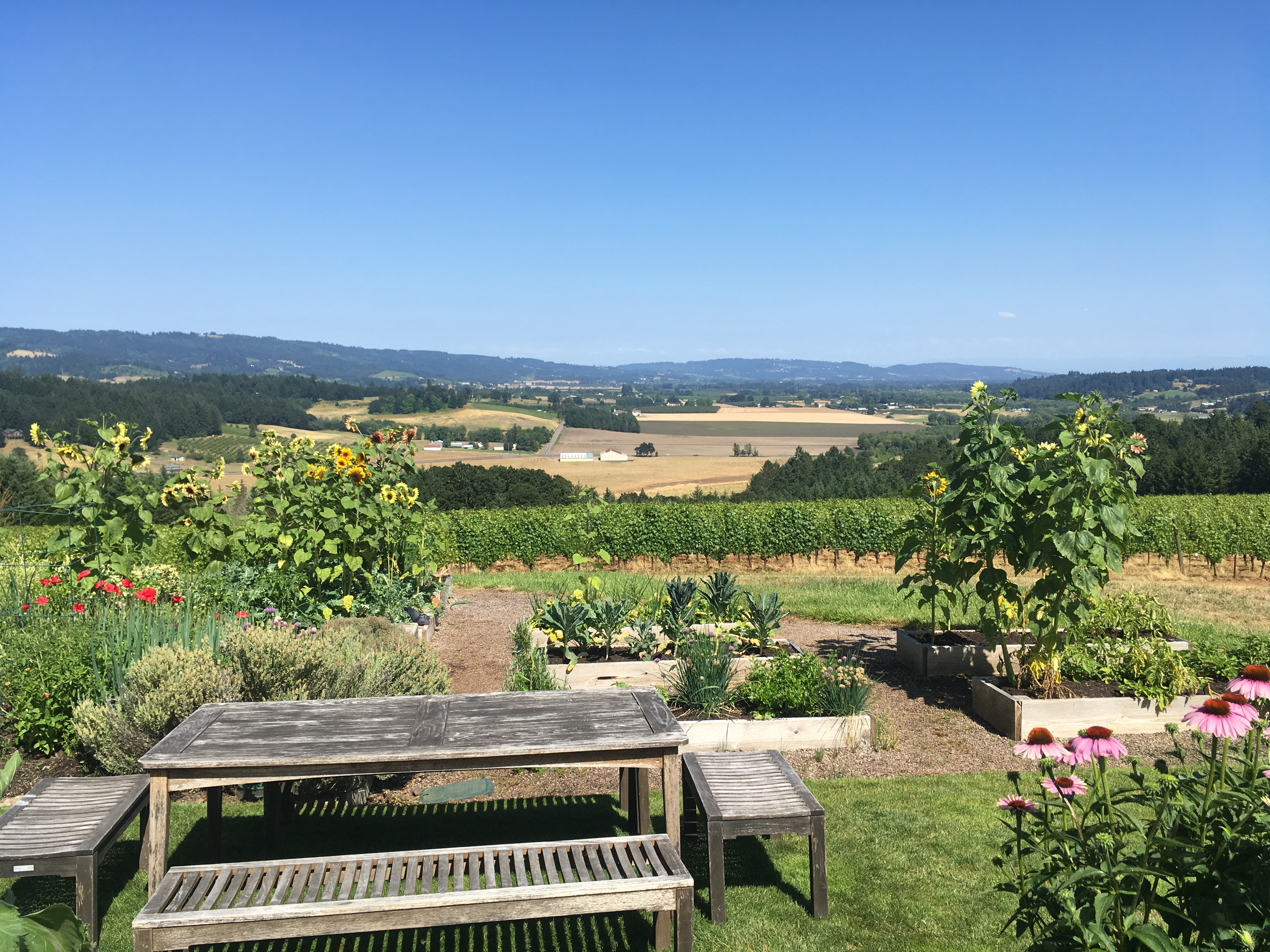 View over vineyards from the Penner-Ash Winery in Oregon's Willamette Valley